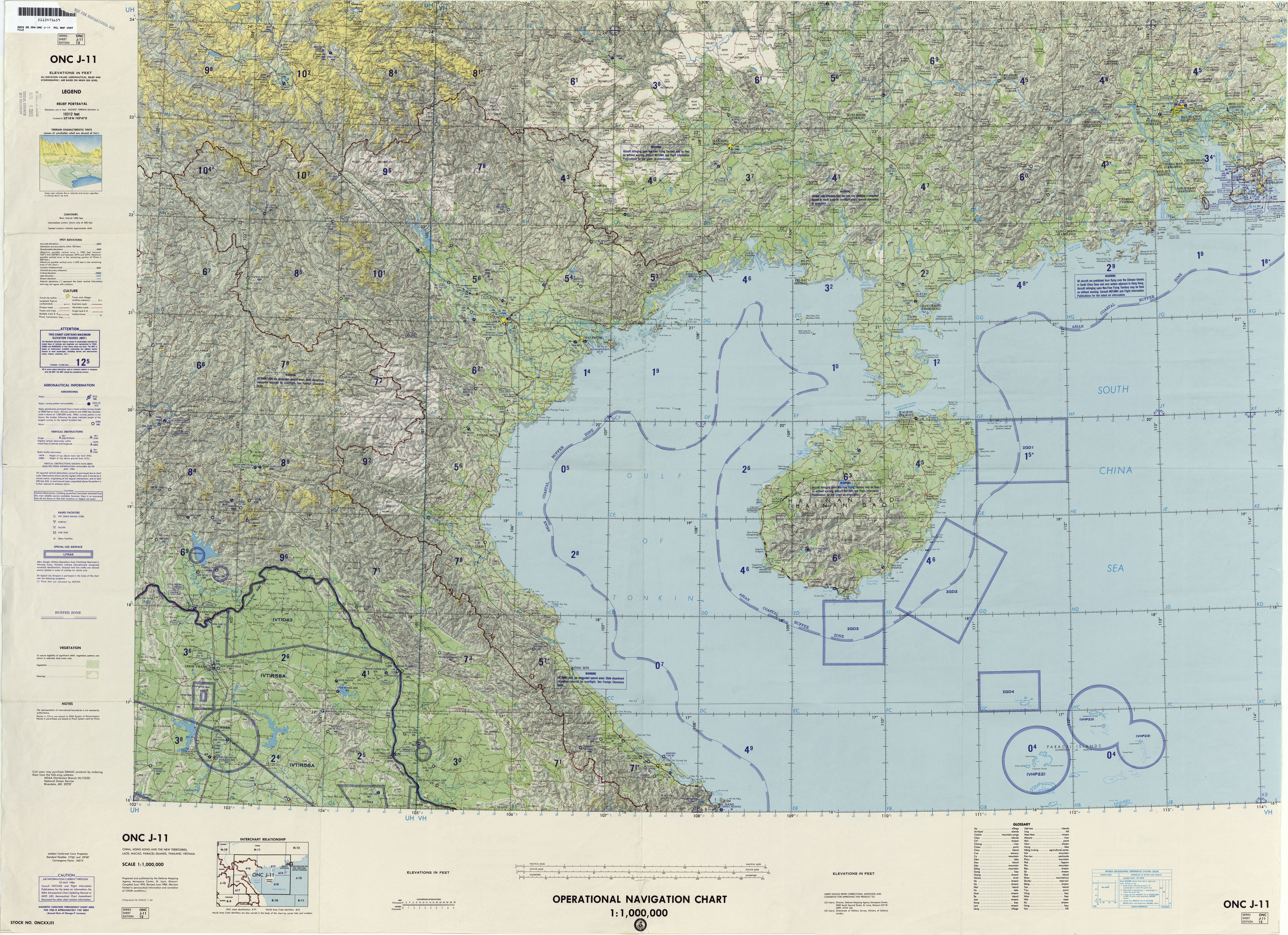 Operational Navigation Chart Series - World 1:1,000,000 Scale